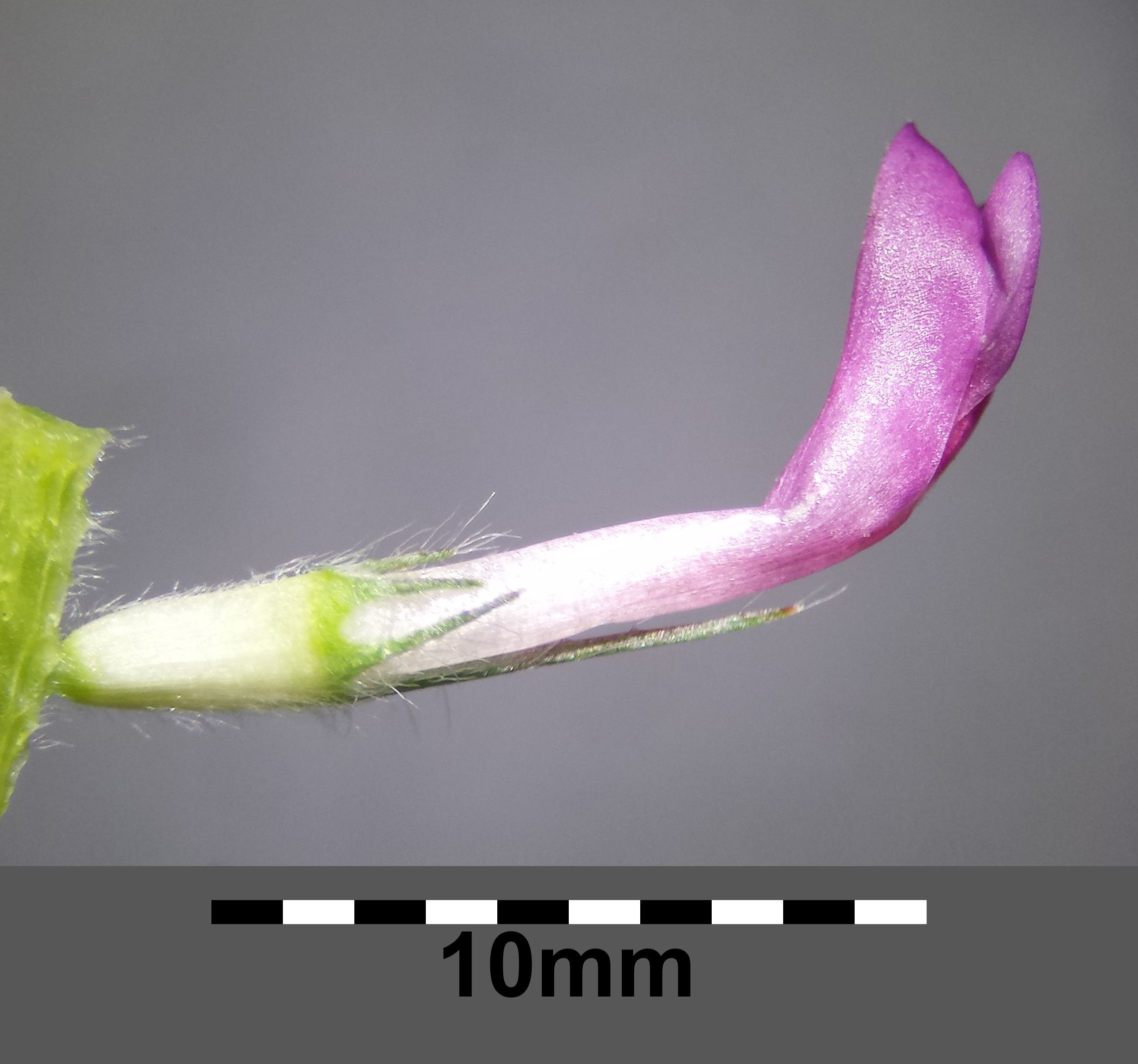 Flower Taxonym: Trifolium alpestre ss Fischer et al. EfÖLS 2008 ISBN 978-3-85474-187-9 Location: Umlaufberg near Altenburg, district Horn, Lower Austria - ca. 350 m a.s.l. Habitat: Carpinion betuli